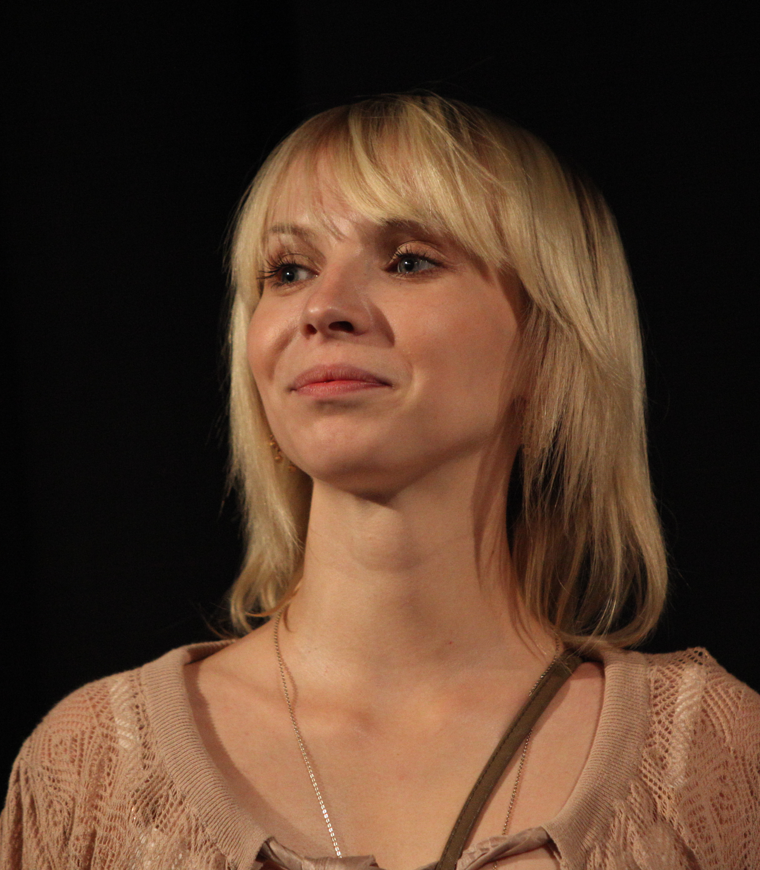 Czech actress Jana Plodková at 2010 Karlovy Vary International Film Festival